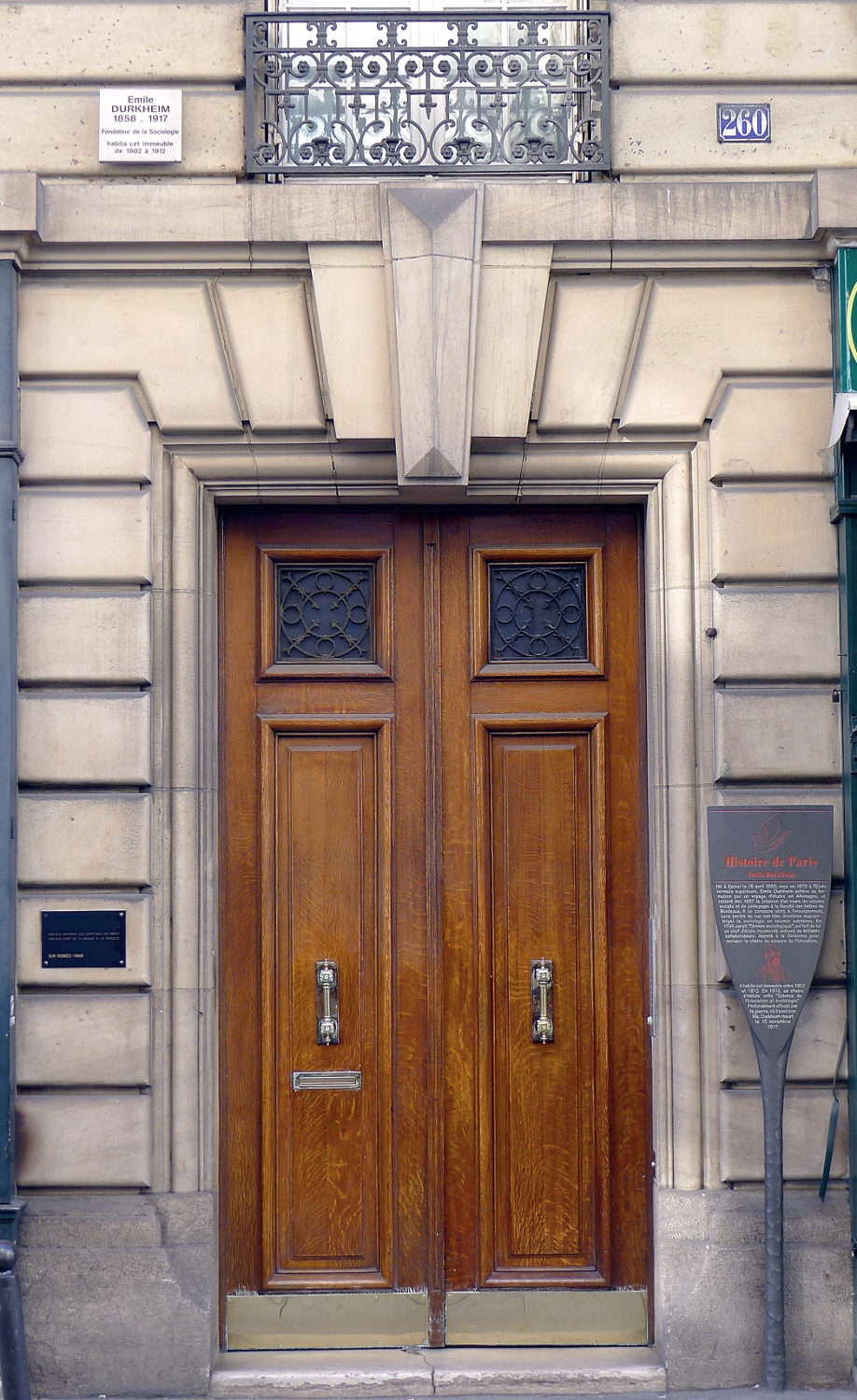 Saint-Jacques street - Paris